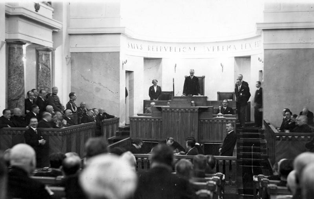 Chamber of the Senate (Senat), Warsaw, 1930